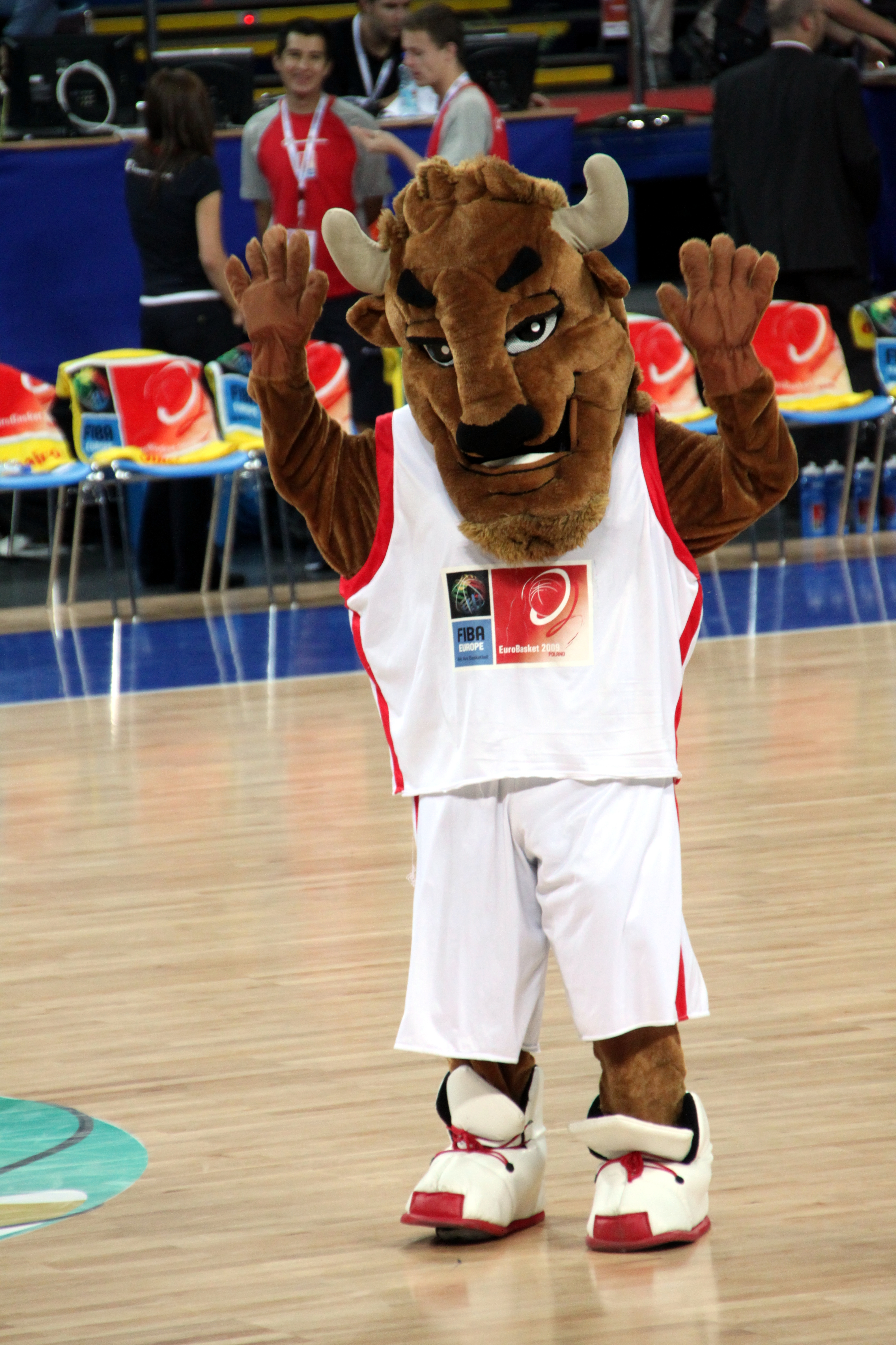 Mieszko. One of the two mascots of the games... (Bulgaria - Turkey 66-94, Eurobasket 2009).